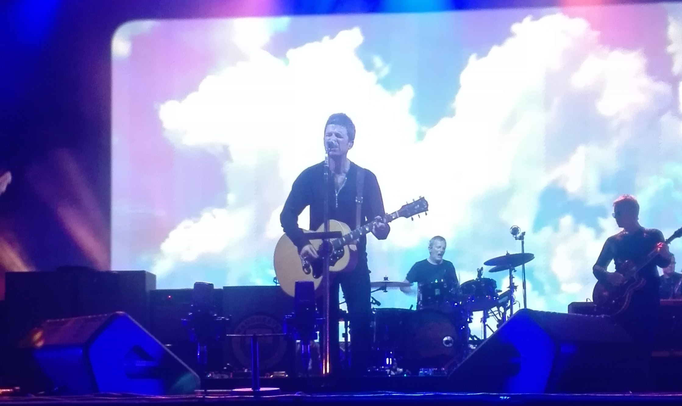 Noel Gallagher's High Flying Birds live at Pistoia Blues, Italy, on July 8th 2019